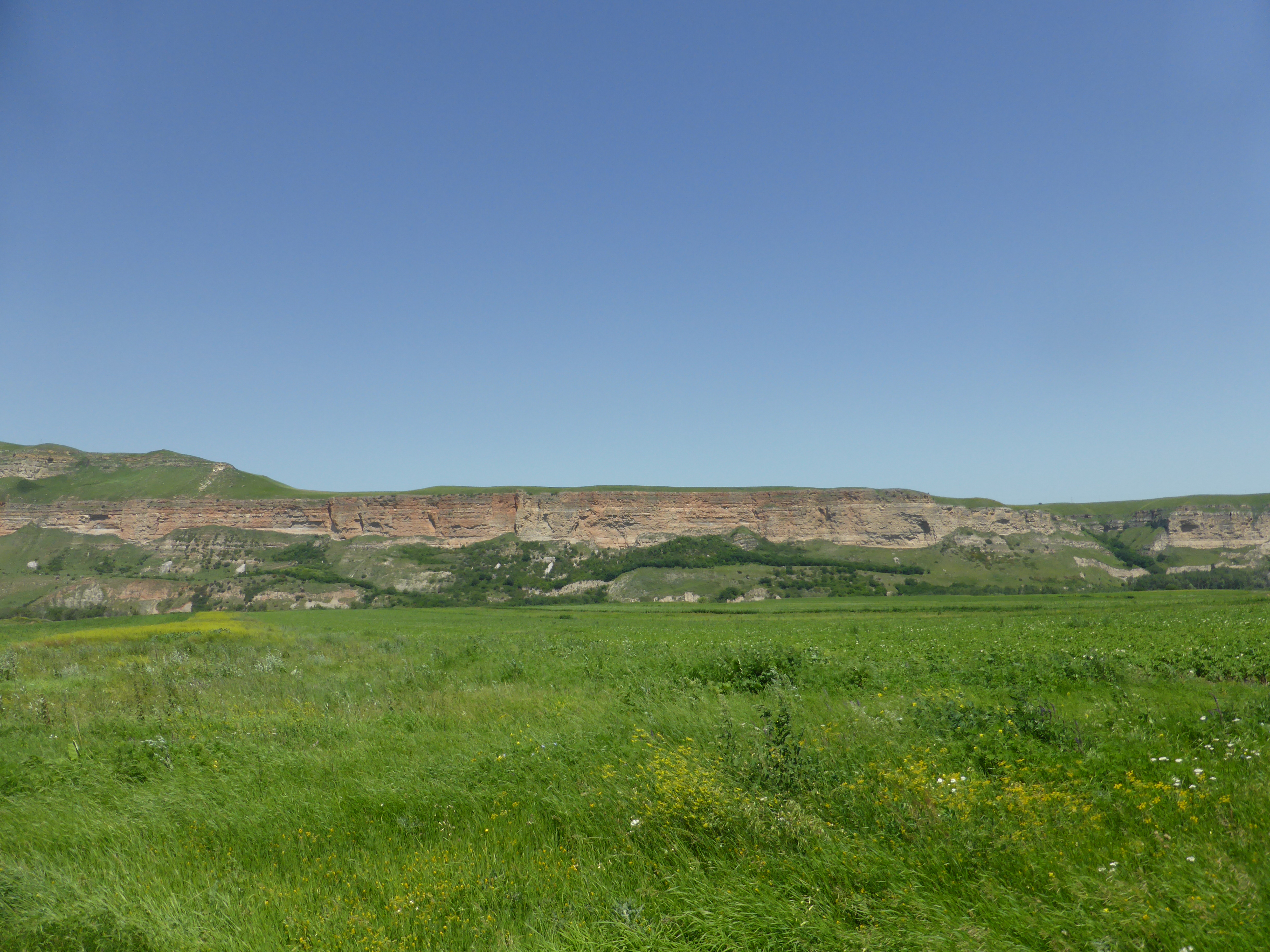 The Cave Of The Devil-Tom